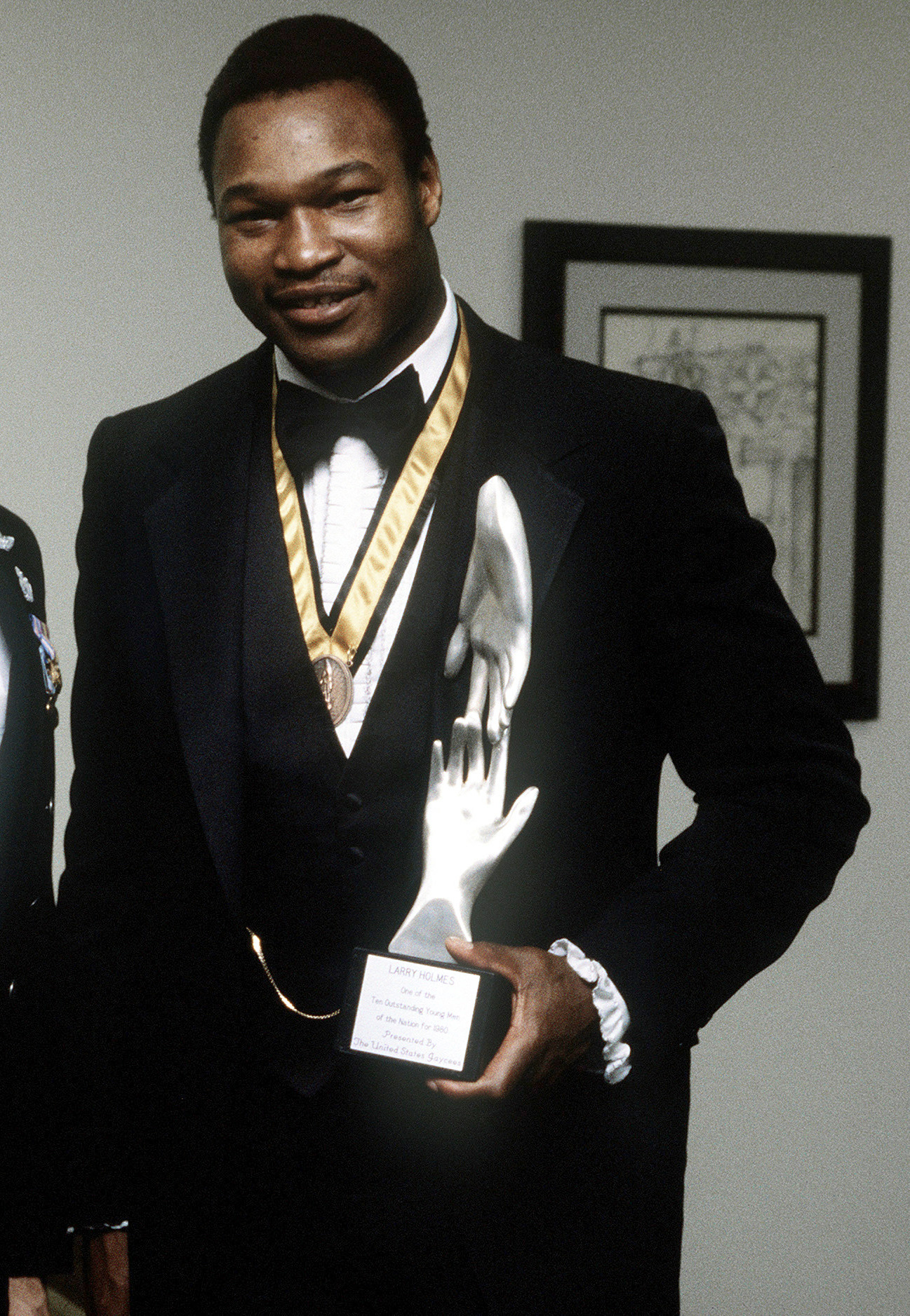 Larry Holmes, the heavy-weight boxing champion, after he received an award from the United States Jaycees as Oustanding Young Men of the Year. Location: TULSA (excerpt from the original text)